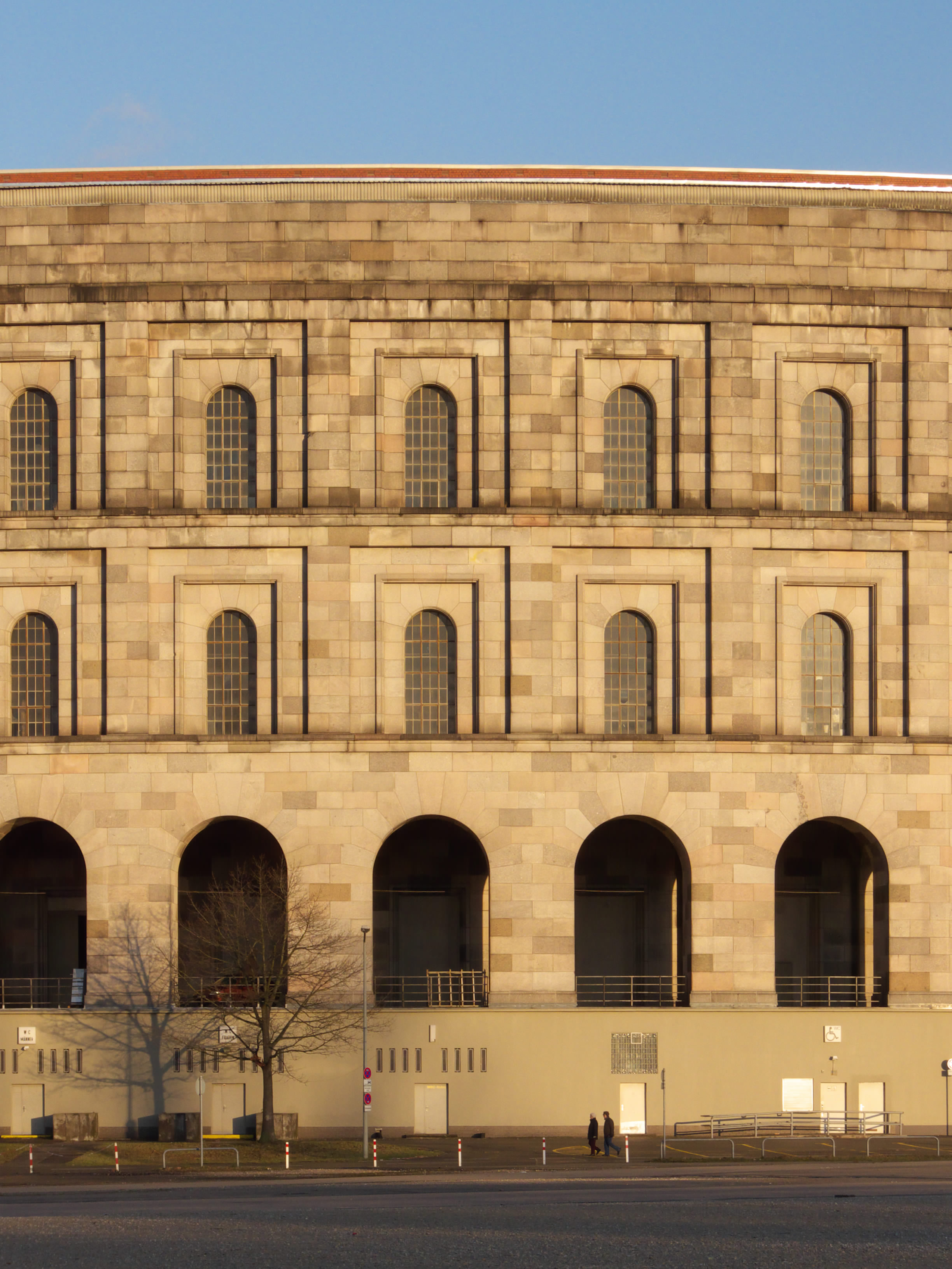 Front detail of the congress hall on the Nazi party rally grounds in Nürnberg, Germany